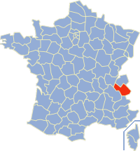 Map of France with highlighted #73 department (taken from fr.wiki) (File:Carte France Département 73.png on Commons and [ Rinaldum